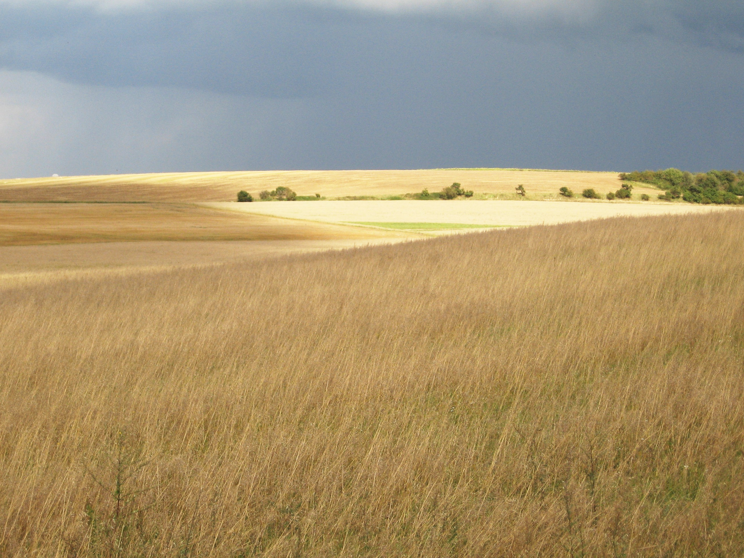 Field in Czechia